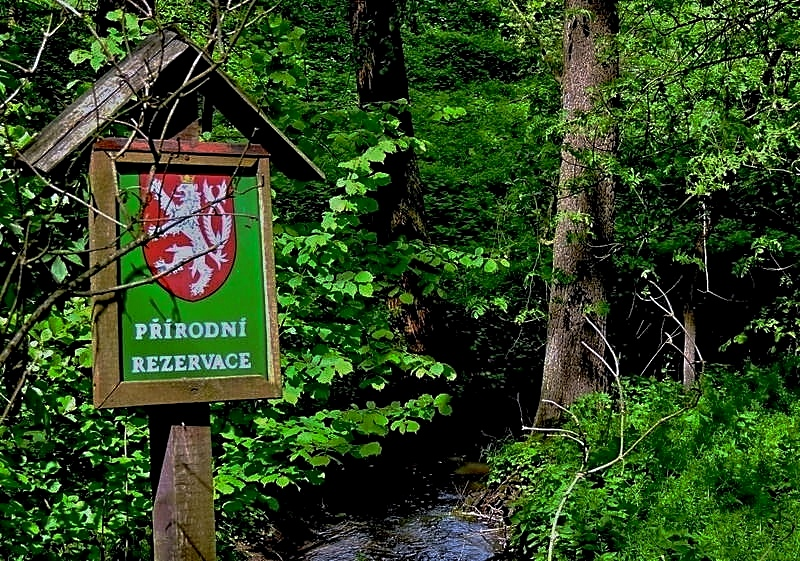 The nature reserve and locality of European importance with named Valley of Anny. Photo location - Czechia, Pardubice Region, Skuteč town and Hroubovice village.